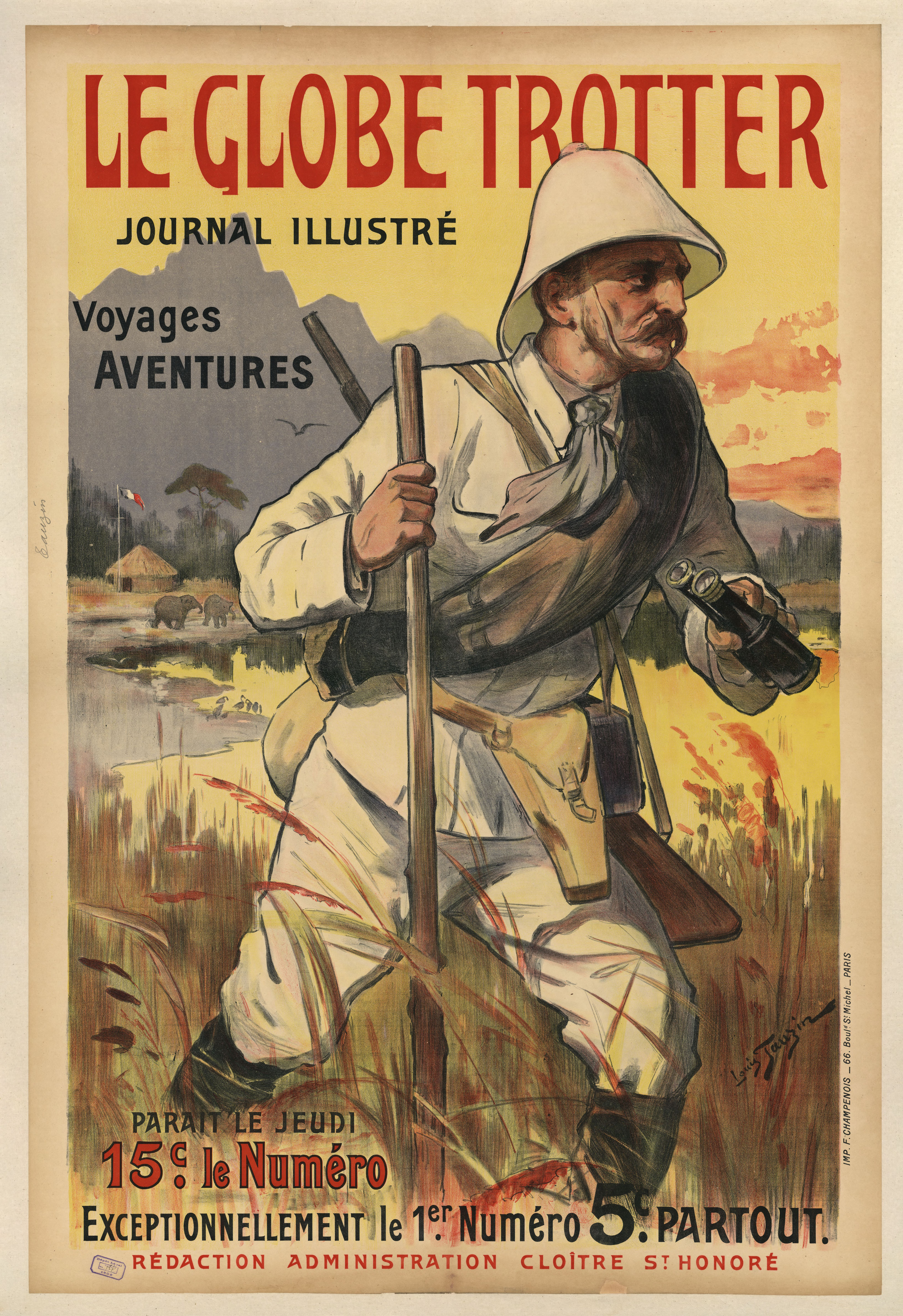 Le Globe Trotter, lithographic poster by Louis Tauzin, advertising for a french magazine sold 15 centimes.